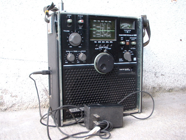 SONY radio “ICF-5800”, so called “Skysensor 5800". This picture was taken just before it is discarded. It shows many broken parts and blots. It should be replaced by a picture of more beautiful one.